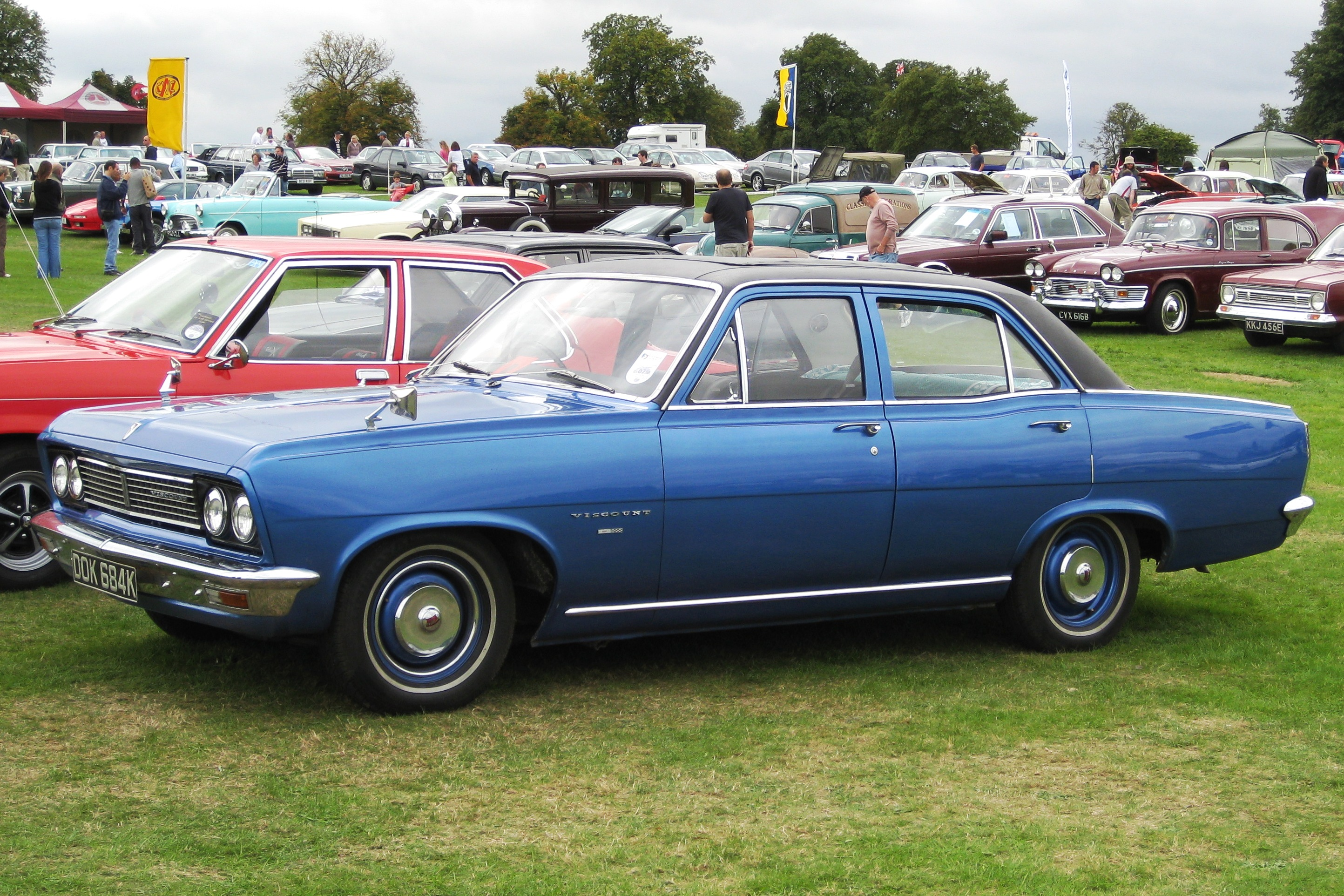 Vauxhall Viscount